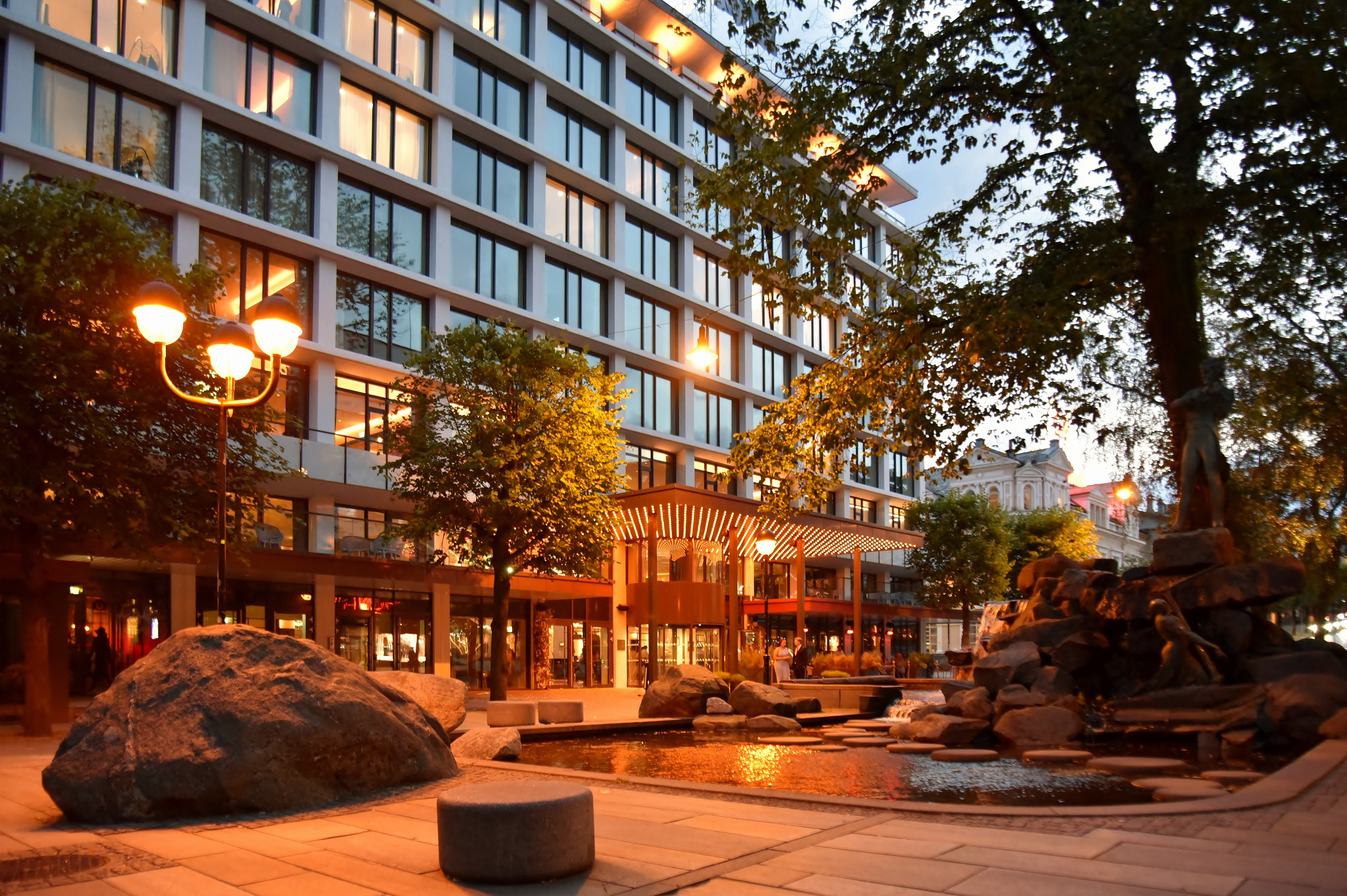 View of Hotel Norge, Bergen, Norway, from Nedre Ole Bulls plass